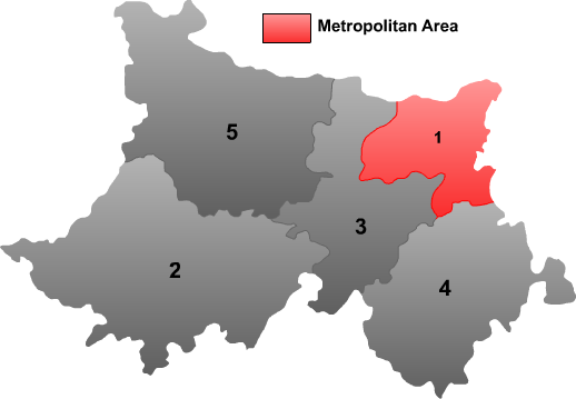 Map of Yunfu in Guangdong province.